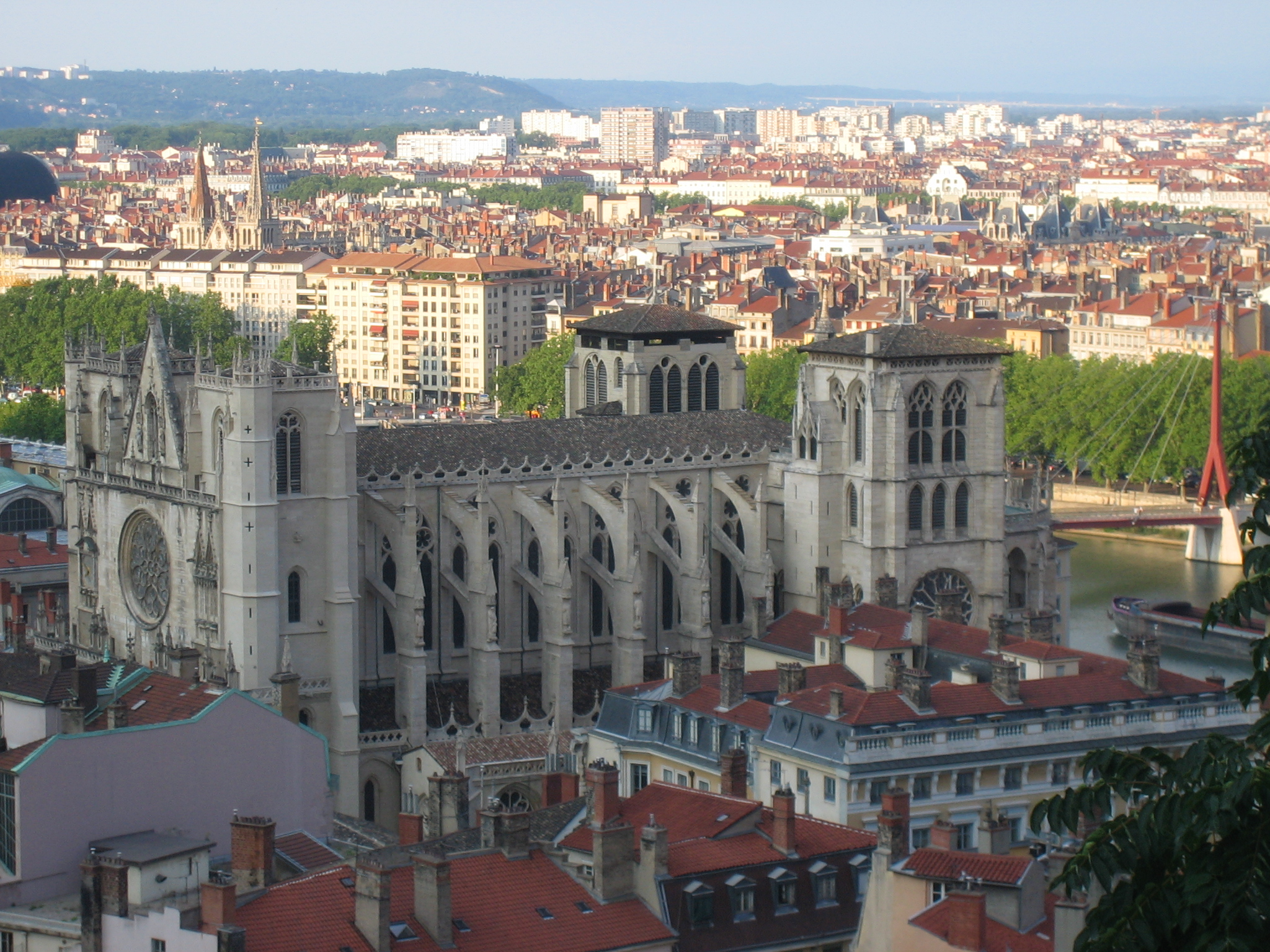 Cathedral Saint Jean in Lyon, France